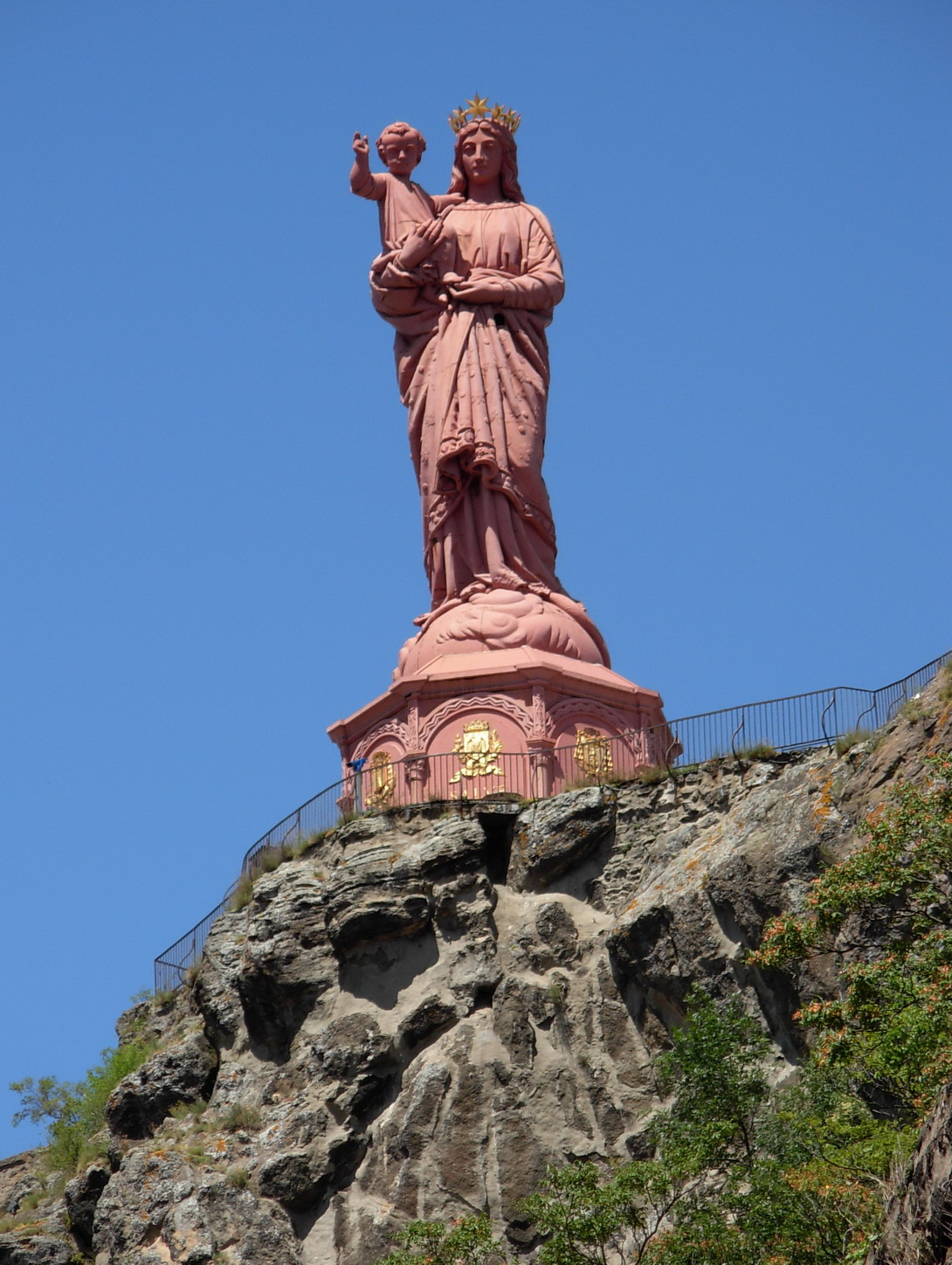 The Corneille Rock and the statue of Notre Dame de France, Le Puy-en-Velay